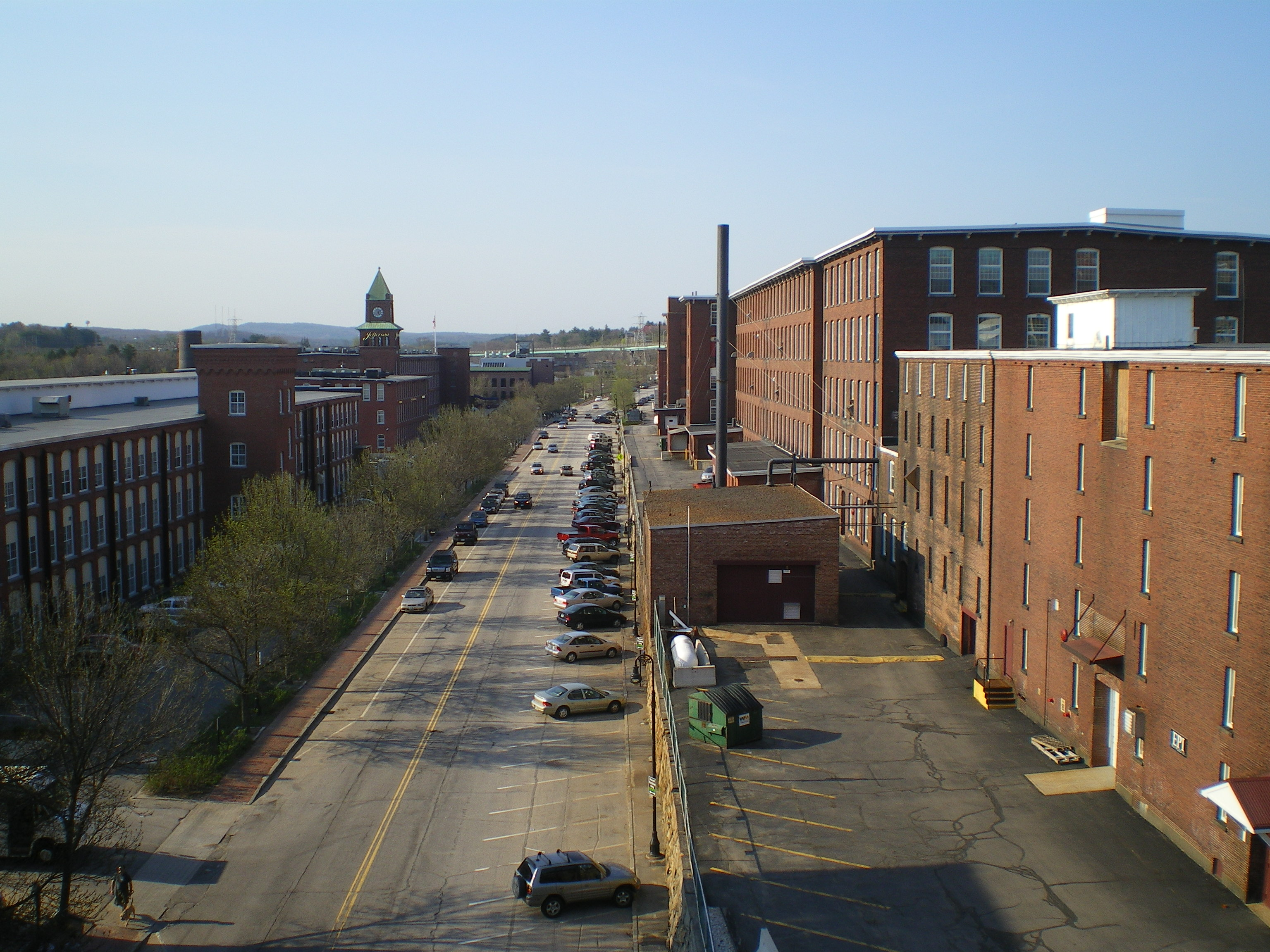 A view of the Manchester, NH millyard when looking north from the Bridge Street Bridge